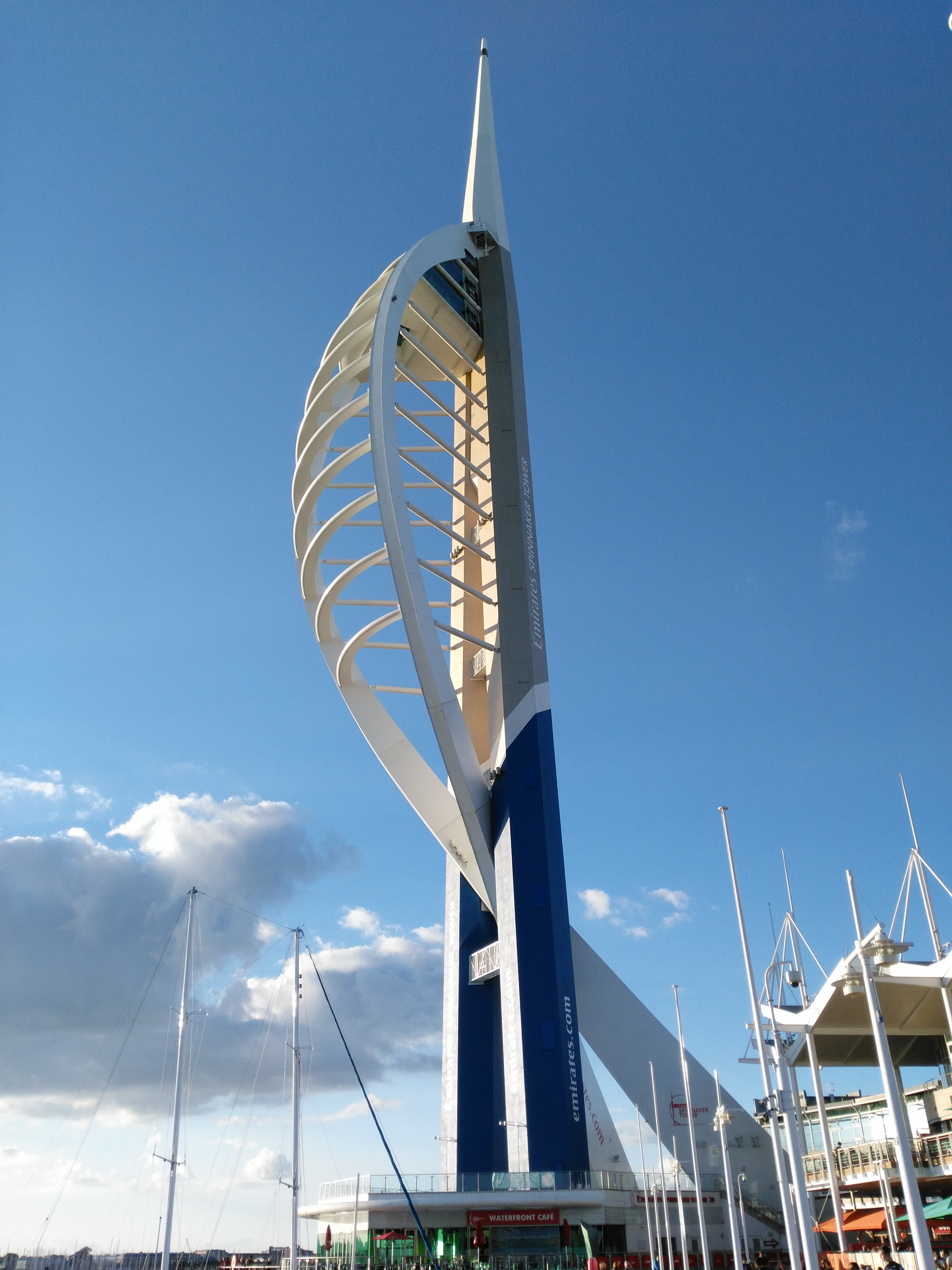 The Spinnaker Tower in Portsmouth, England in October 2016, showing the blue and grey colour scheme applied to it as a result of the sponsorship by Emirates.